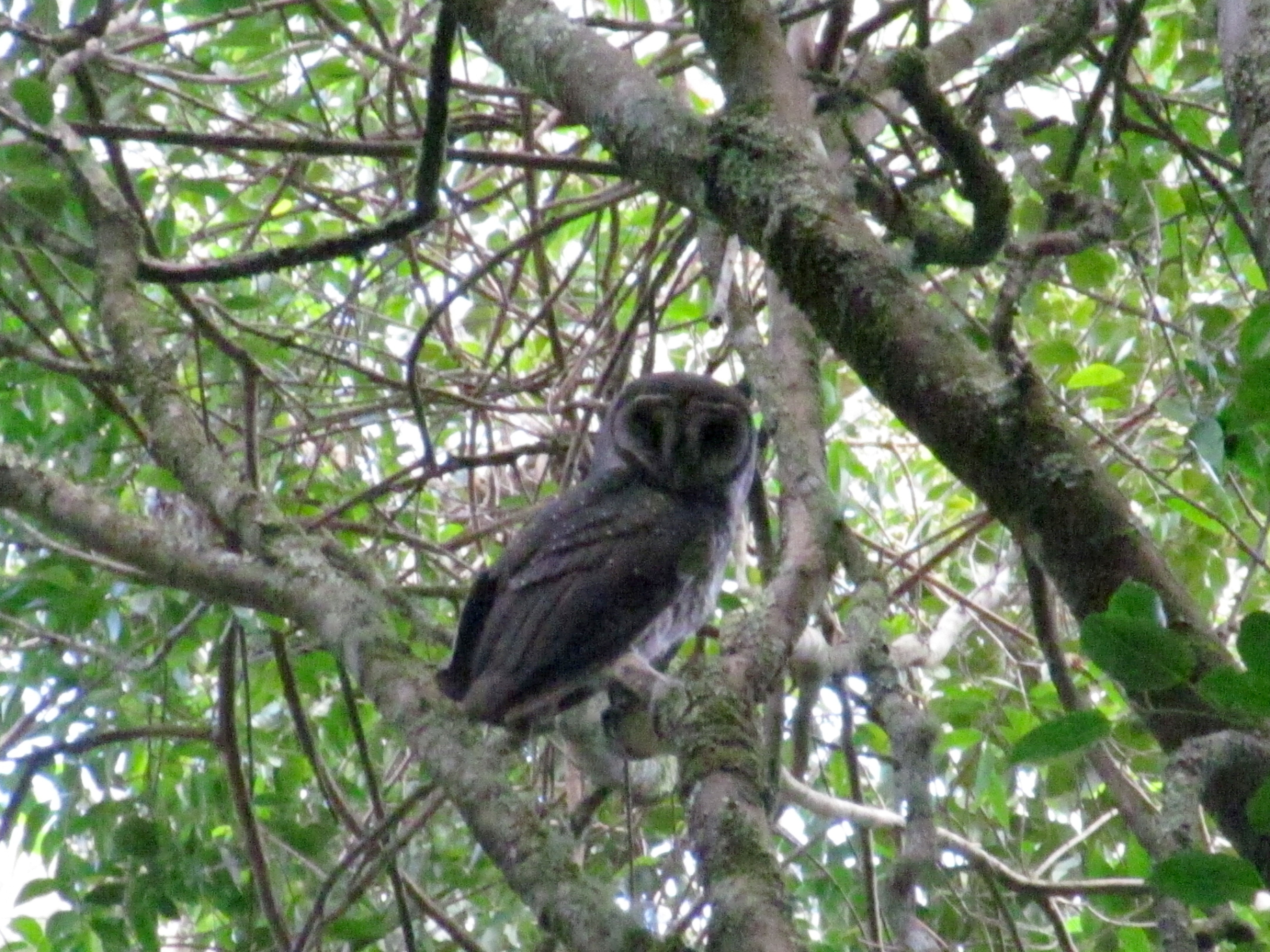 This photograph was taken in Scrubby Creek in the Mitchell River National Park, Victoria, Australia. There are no roads or tracks to this location, so it is relatively untouched.